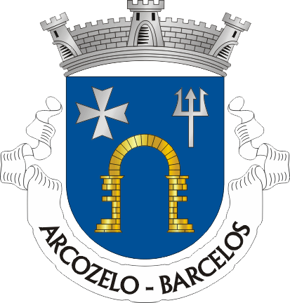 Crest of Arcozelo, a parish in the municipality of Barcelos (Portugal)